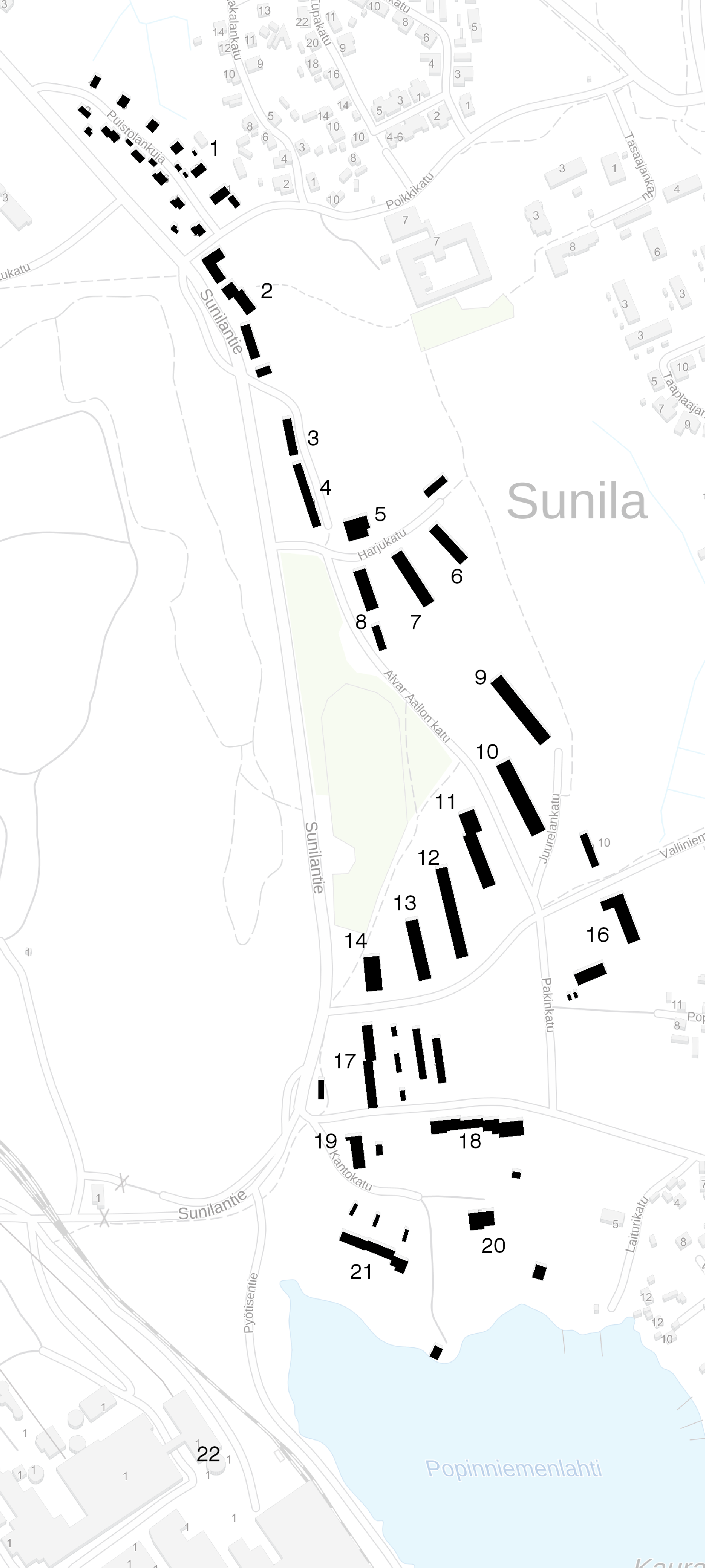 Buildings in Sunila planned by Alvar Aalto.